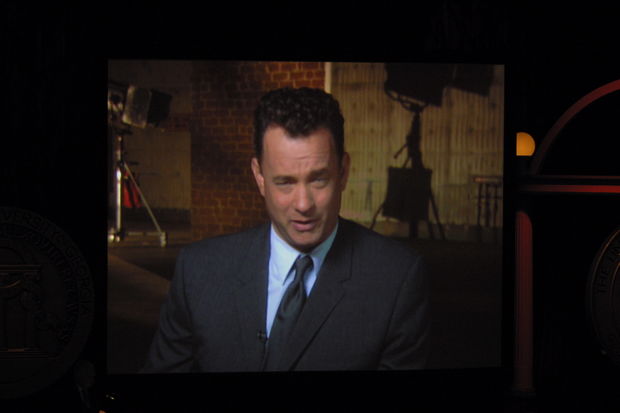 PHOTO CREDIT: ANDERS KRUSBERG / PEABODY AWARDS Tom Hanks accepting the Peabody Award via video screen, 61st Annual Peabody Awards Luncheon Waldorf=Astoria Hotel May 20, 2002